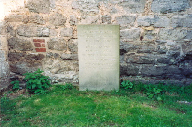 The Battle of Stoke Field. Fought in 1487, it was the last battle of the War of the Roses. The memorial is set against the southern wall of the church.